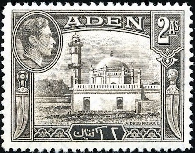 The Aidrus Mosque is featured on this Aden postage stamps, the 1938 2 anna stamp